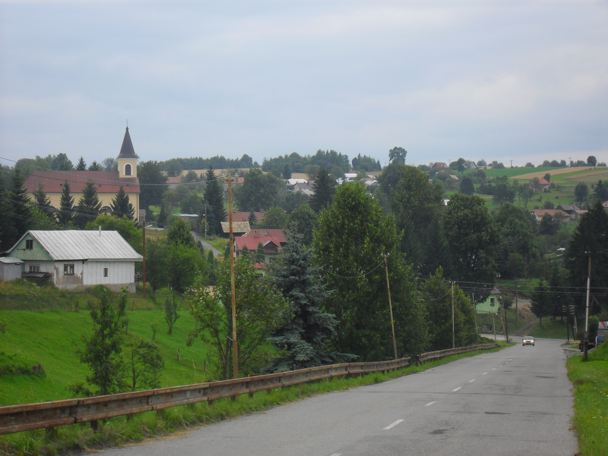 Detvianska Huta - part of the village with the road II/526.